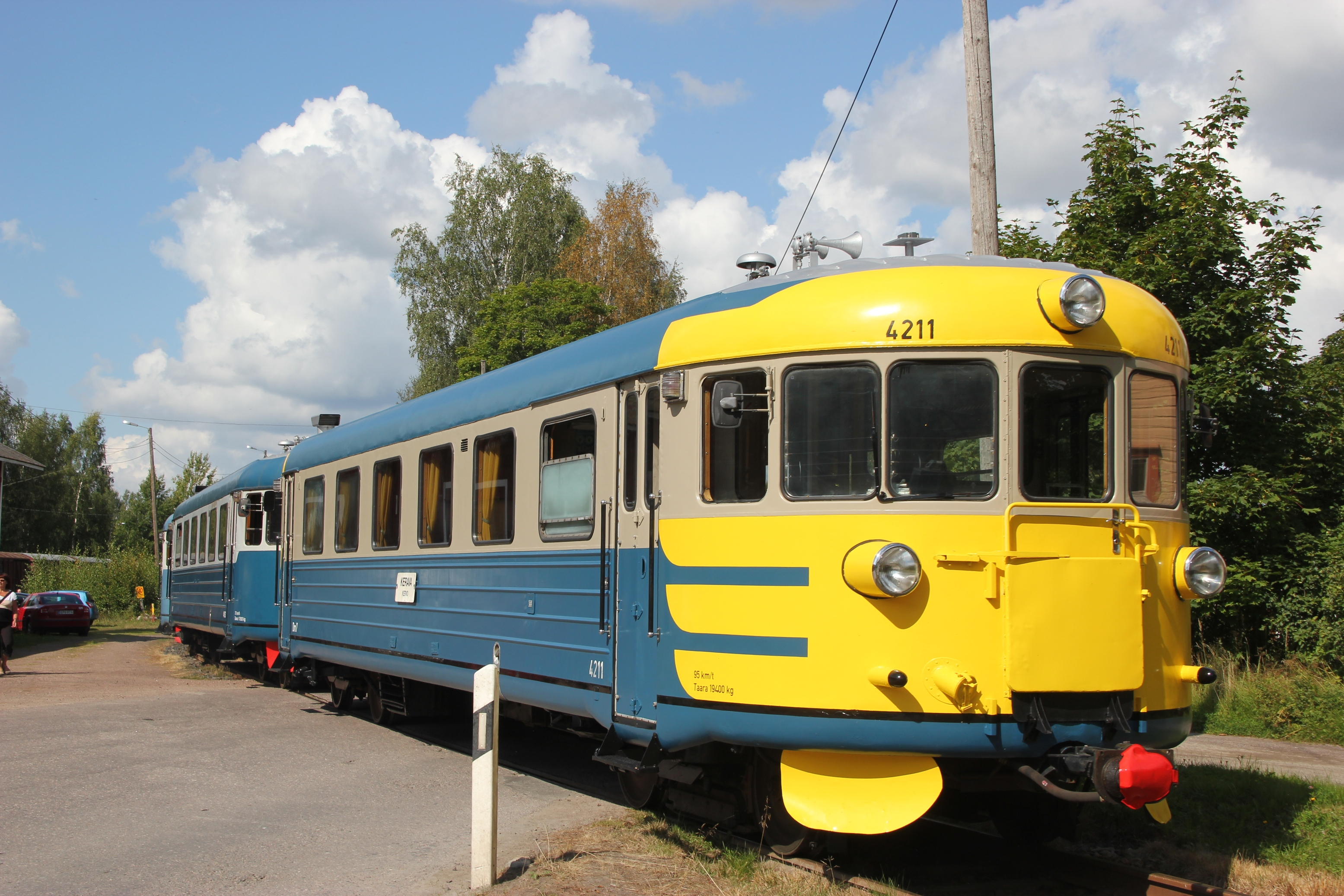 A Porvoo Museum Railroad train leaving Porvoo station, consisting of preserved Dm7 DMUs and preversed EFiab-class cars.